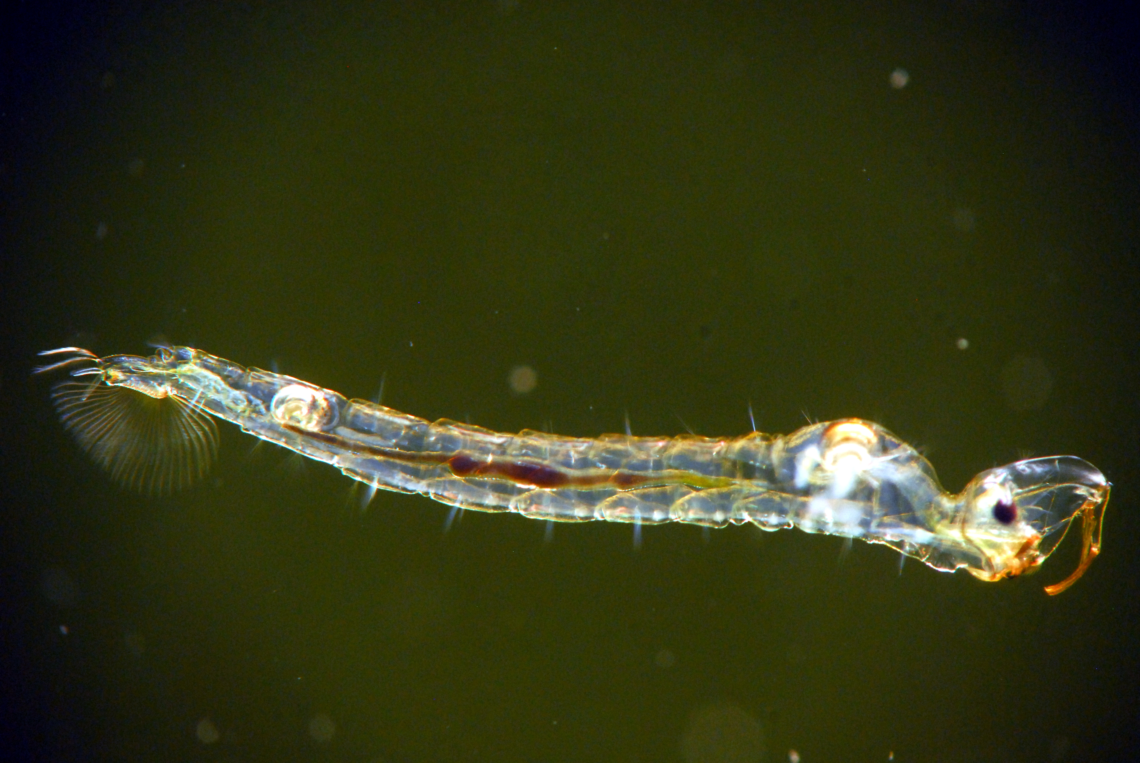 Chaoborus from a Rhine floodplain pool.